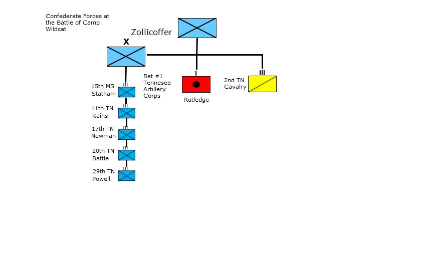 Diagram of the Confederate Forces at the Battle of Camp Wildcat